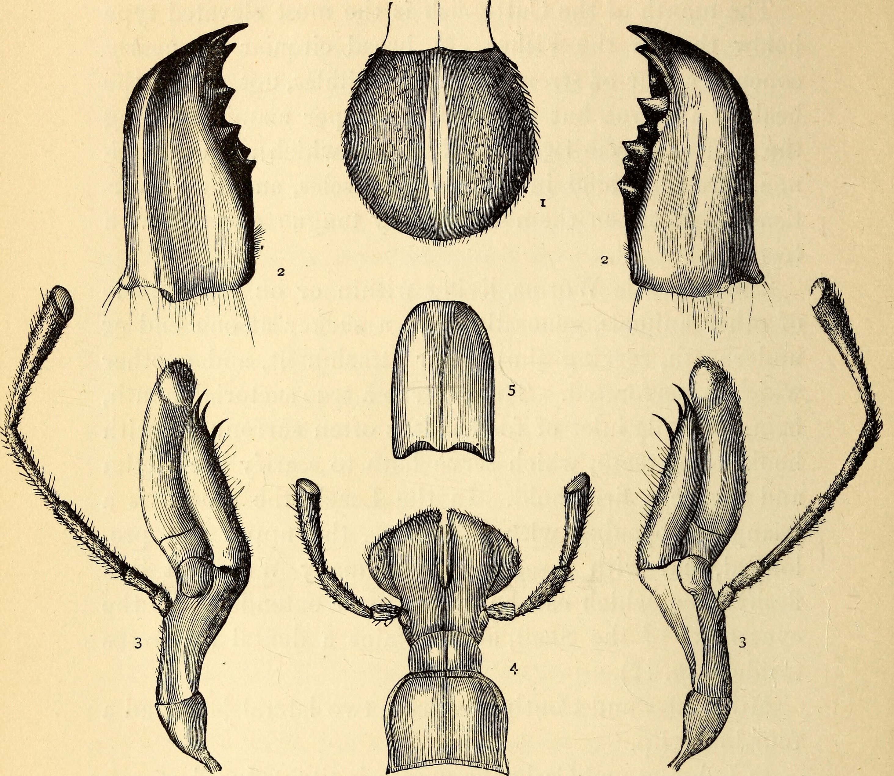 Title: Comparative zoology, structural and systematic : for use in schools and colleges Year: 1883 (1880s) Authors: Orton, James, 1830-1877; Birge, E. A. (Edward Asahel), 1851-1950 Subjects: Zoology; Anatomy, Comparative; Physiology, Comparative Publisher: New York : Harper & Bros. Text Appearing Before Image: 58 COMPARATIVE ZOOLOGY. Text Appearing After Image: Fig. 21.—Mouth of a Locust dissected: 1, labrum, or upper lip; 2, mandibles; 3, jaws; 4, labium, or lower lip; 5, tongue. The appendages to the maxillae arid lower lip are palpi. the suctorial (as the Butterfly). In the former group, the oral apparatus consists of two pairs of horny jaws (mandi- bles and maxillce), which work horizontally between an upper (labrum) and an under (labium) lip. The maxillae and under lip carry sensitive jointed feelers (palpi). The front edge of the labium is commonly known as the tongue (ligula).21 In such a mouth, the mandibles are the most important parts; but in passing to the suctorial Insects, we find that the mandibles are secondary to the maxillae and labium, which are the only means of taking food. In